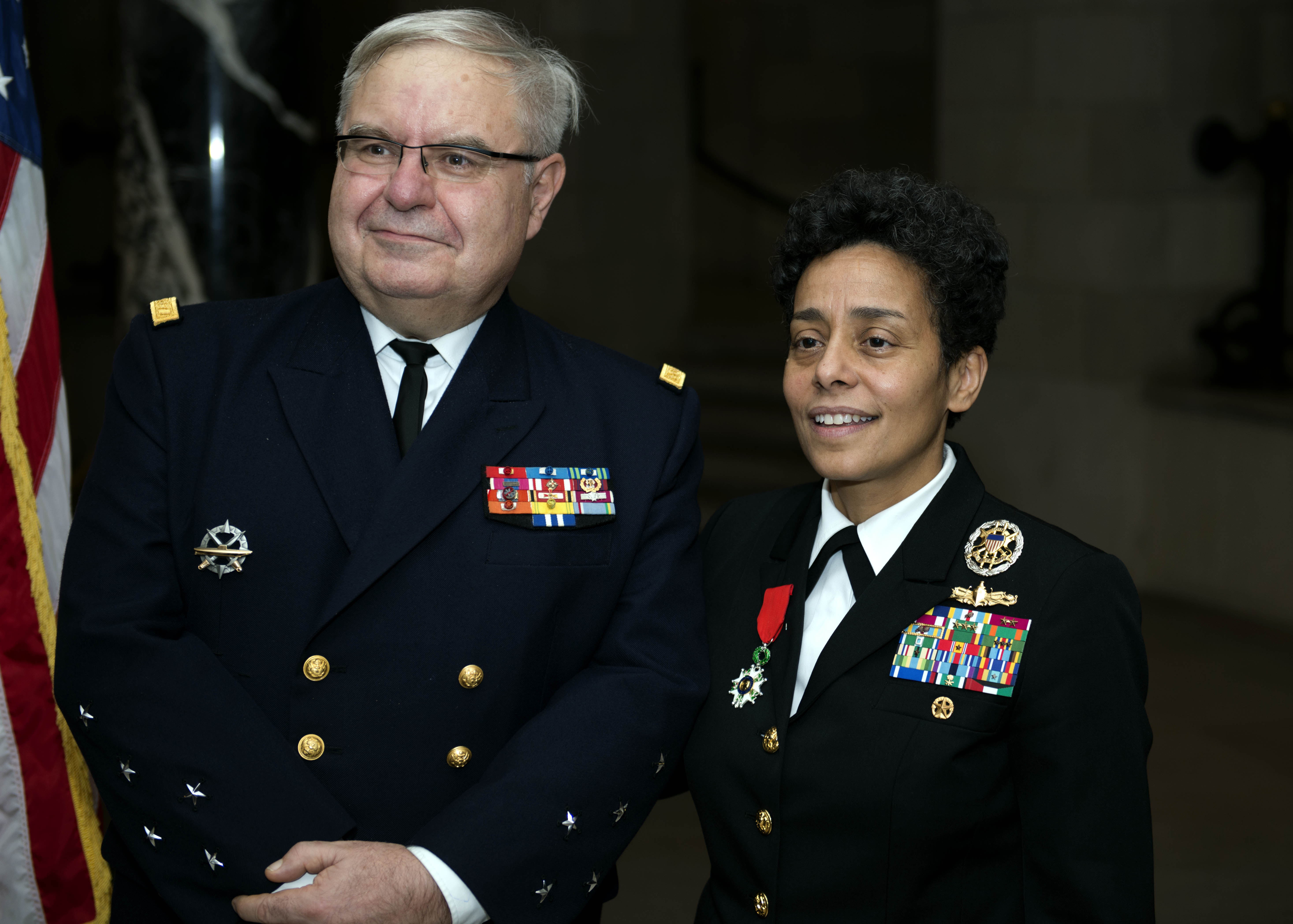 French Chief of Staff Adm. Bernard Rogel stands by Vice Chief of Naval Operations Adm. Michelle Howard after presenting her with the Legion d'Honneur Award at the Crypt of John Paul Jones in the main chapel of the U.S. Naval Academy in Annapolis, Md., Dec. 10. The Legion d'Honneur Award is France's highest award.